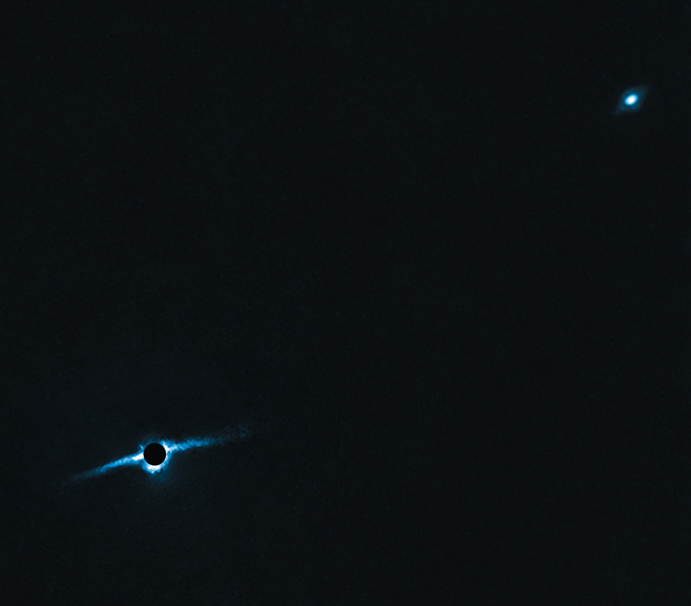 Observations by ESO’s planet-finding instrument, SPHERE, a high-contrast adaptive optics system installed on the third Unit Telescope of ESO’s Very Large Telescope, have revealed the edge-on disc of gas and dust present around the binary star system HD 106906AB. HD 106906AB is a double star located in the constellation of Crux (The Southern Cross). Astronomers had long suspected that this 13 million-year-old stellar duo was encircled by a debris disc, due to the system’s youth and characteristic radiation. However, this disc had remained unseen — until now! The system’s spectacular debris disc can be seen towards the lower left area of this image. It is surrounding both stars, hence its name of circumbinary disc. The stars themselves are hidden behind a mask which prevent their glare from blinding the instrument. These stars and the disc are also accompanied by an exoplanet, visible in the upper right, named HD 106906 b, which orbits around the binary star and its disc at a distance greater than any other exoplanet discovered to date — 650 times the average Earth–Sun distance, or nearly 97 billion kilometres. HD 106906 b has a mammoth mass of up to 11 times that of Jupiter, and a scorching surface temperature of 1500 degrees Celsius. Thanks to SPHERE, HD 106906AB has become the first binary star system to have both an exoplanet and a debris disc successfully imaged, providing astronomers with a unique opportunity to study the complex process of circumbinary planet formation.